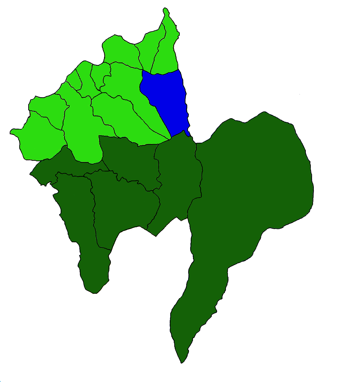 Map of Fiães in Melgaço, Portugal